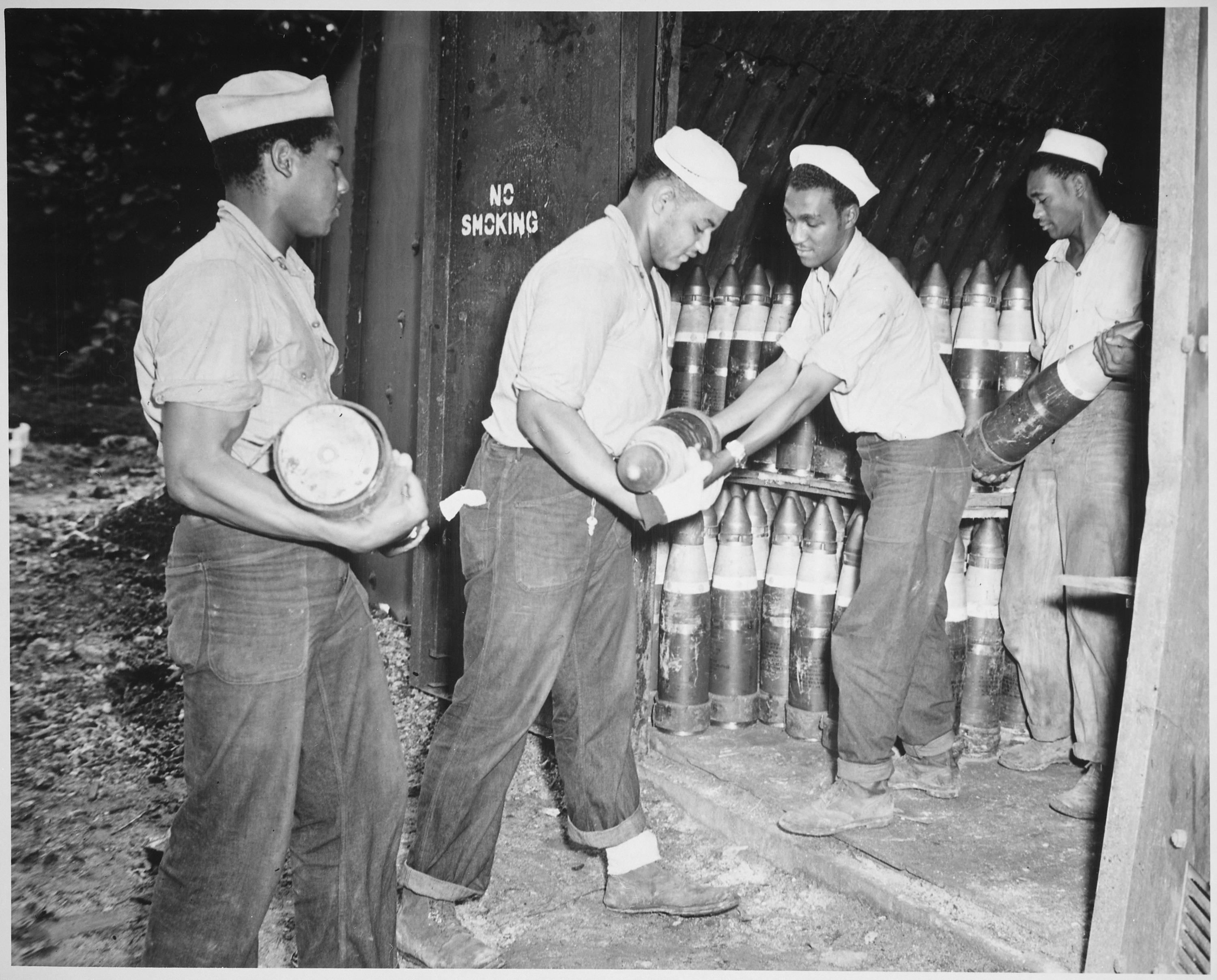 Scope and content: From left to right: S1/c Dodson B. Samples, S1/c Raymond Wynn, S1/c Edward L. Clavo, and S1/c Jesse Davis.